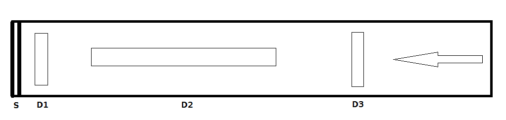 Configuration of road traffic loop detectors according to IVER standards (Netherlands). Distances and sizes not to scale.